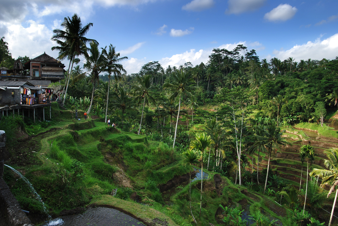 Rice Terrace at Tegallalang